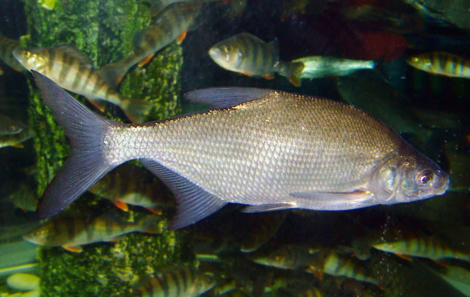 Лещ - Carp bream